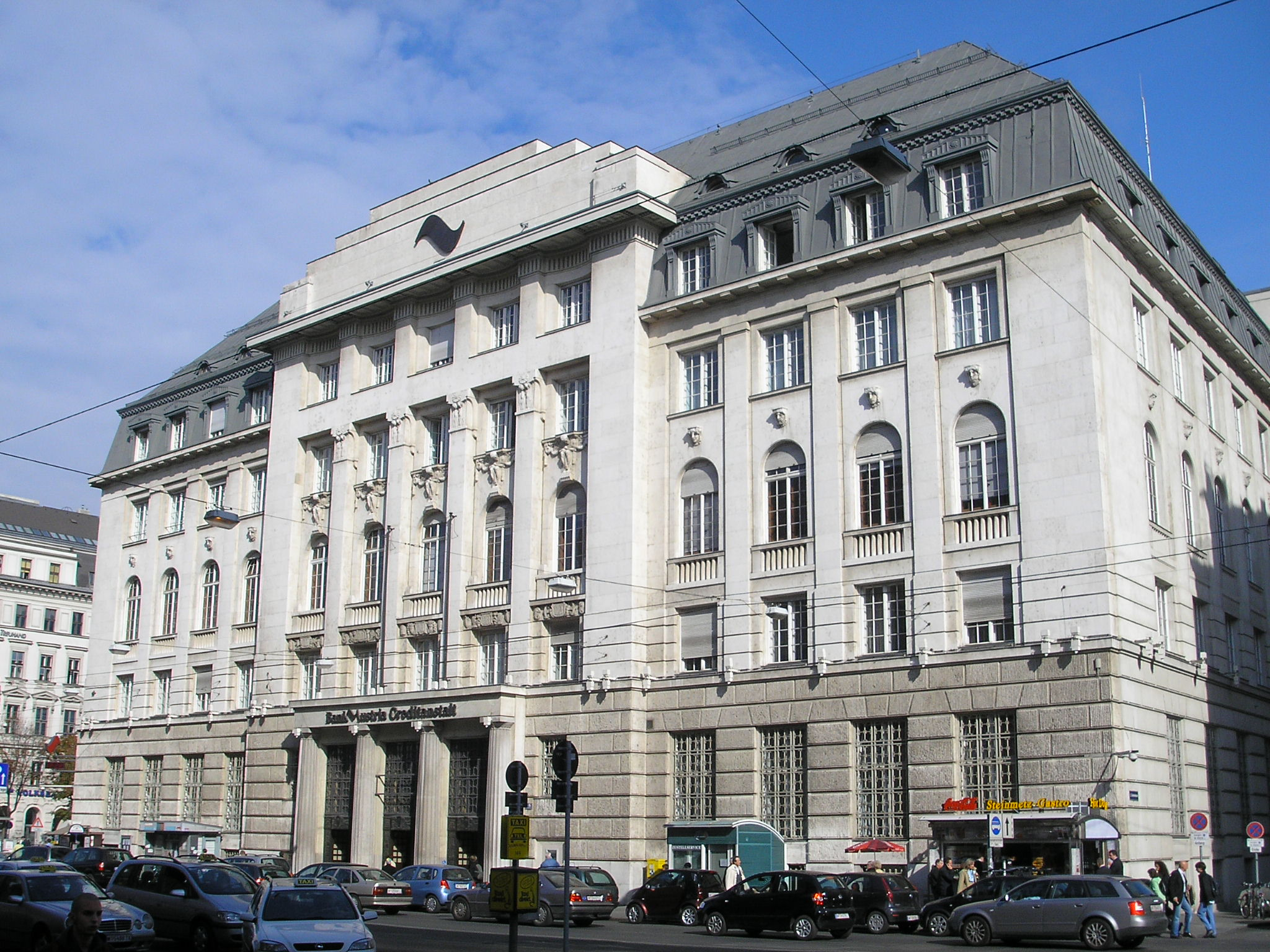 Image of the Creditanstalt building in Vienna's first district Innere Stadt, located at Schottengasse.